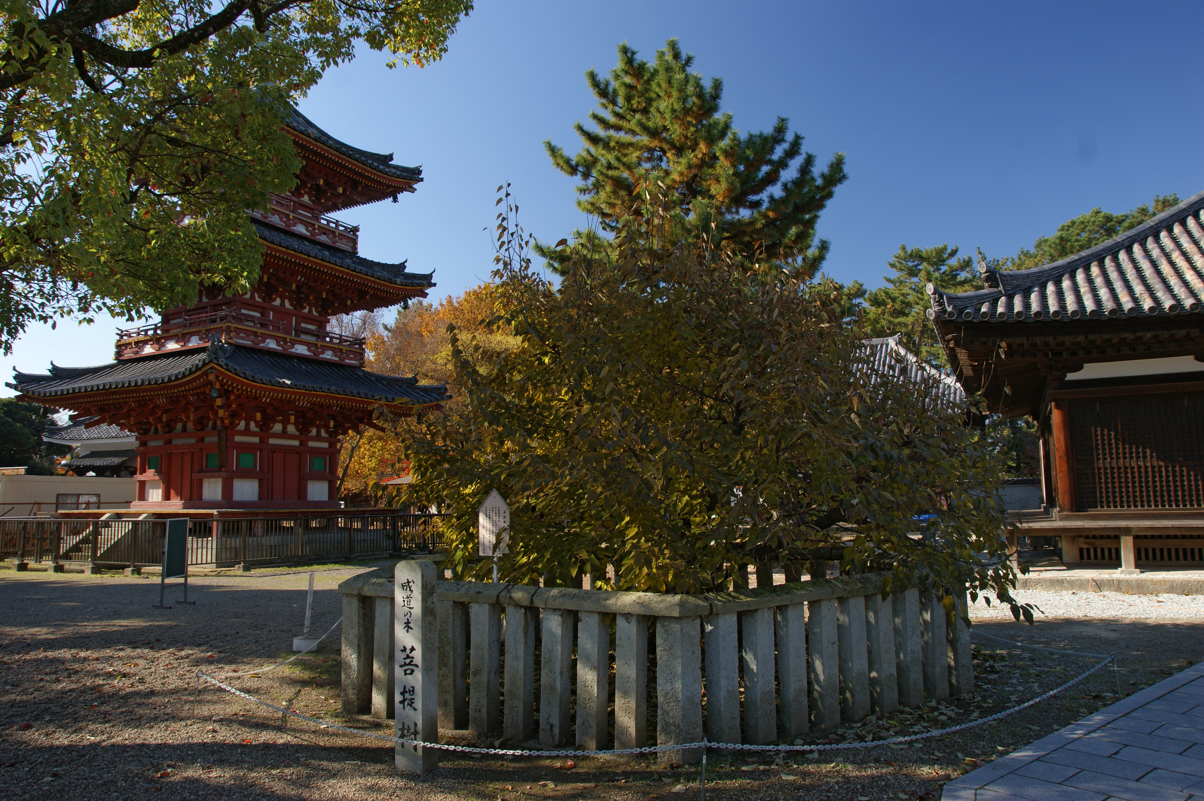 Kakurinji, Kakogawa, Hyogo prefecture, Japan